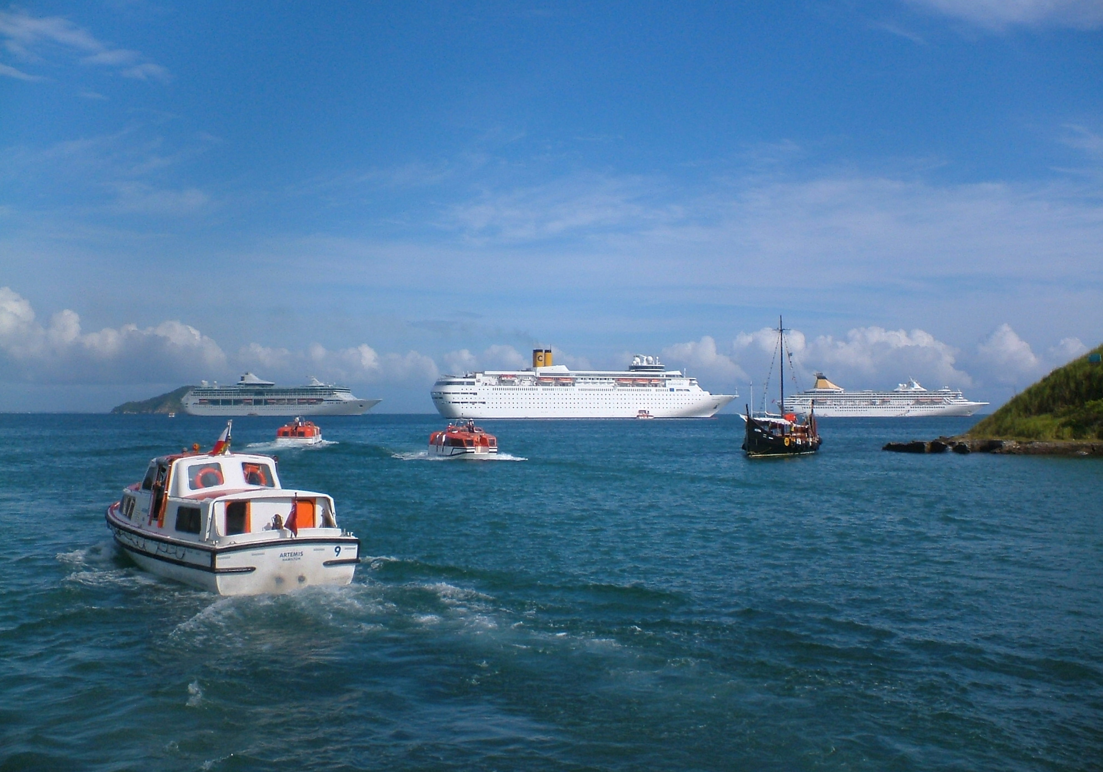 Costa Classica, left: Splendour of the Seas, right: Artemis. Taken at Buzios, Brazil.